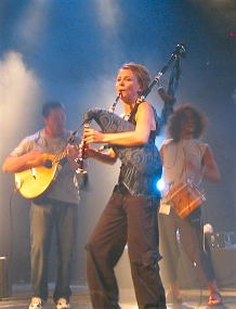 Susana Seivane at a concert in Lorient, Brittany, 2004